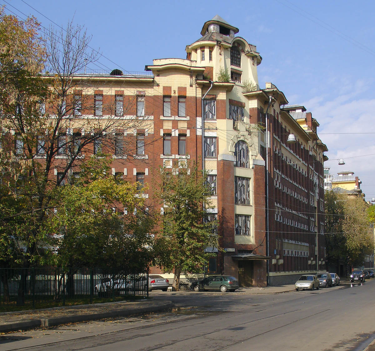 Former apartments, now offices, Gilarovskogo Street, Moscow